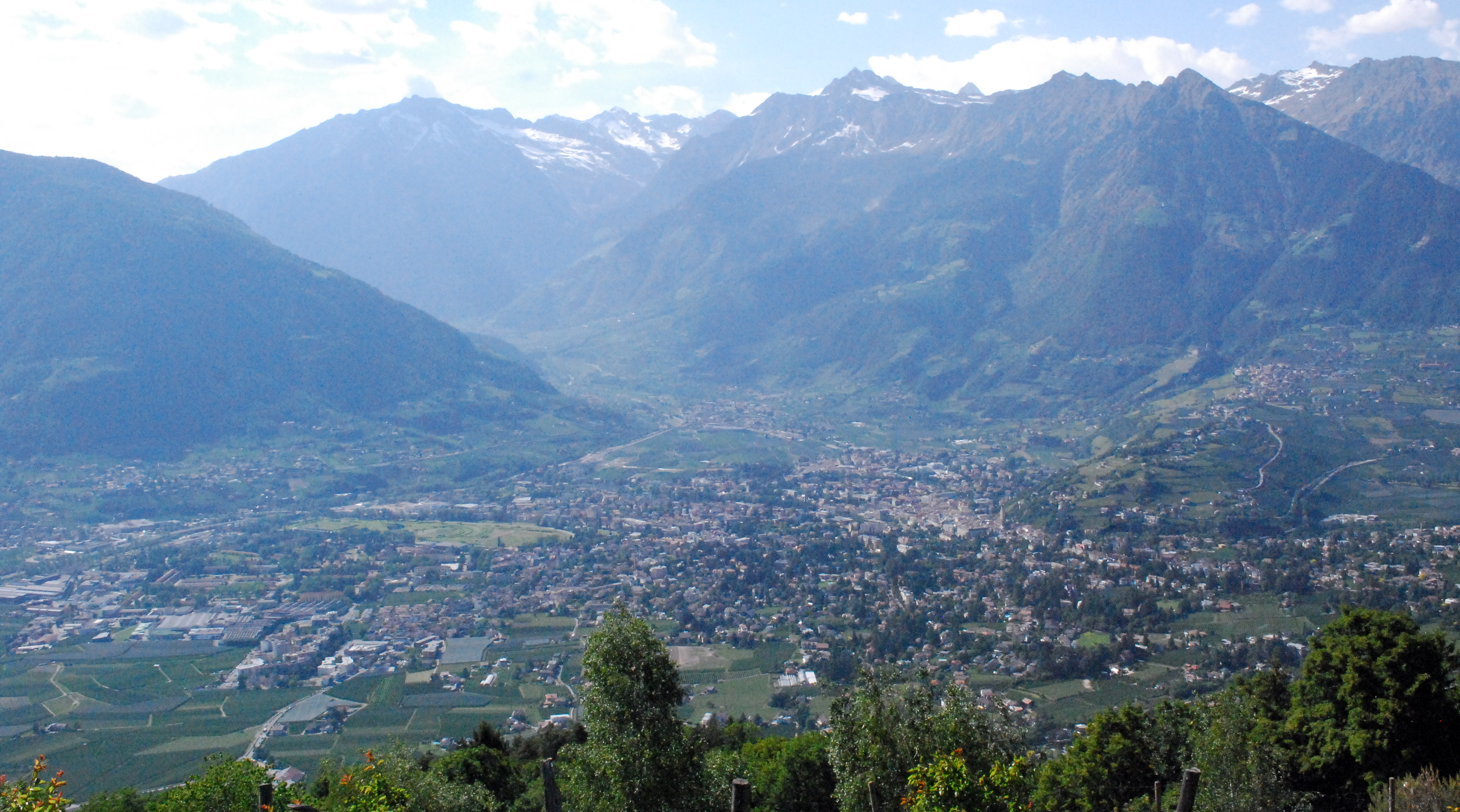 Meran and Texelgruppe from SE